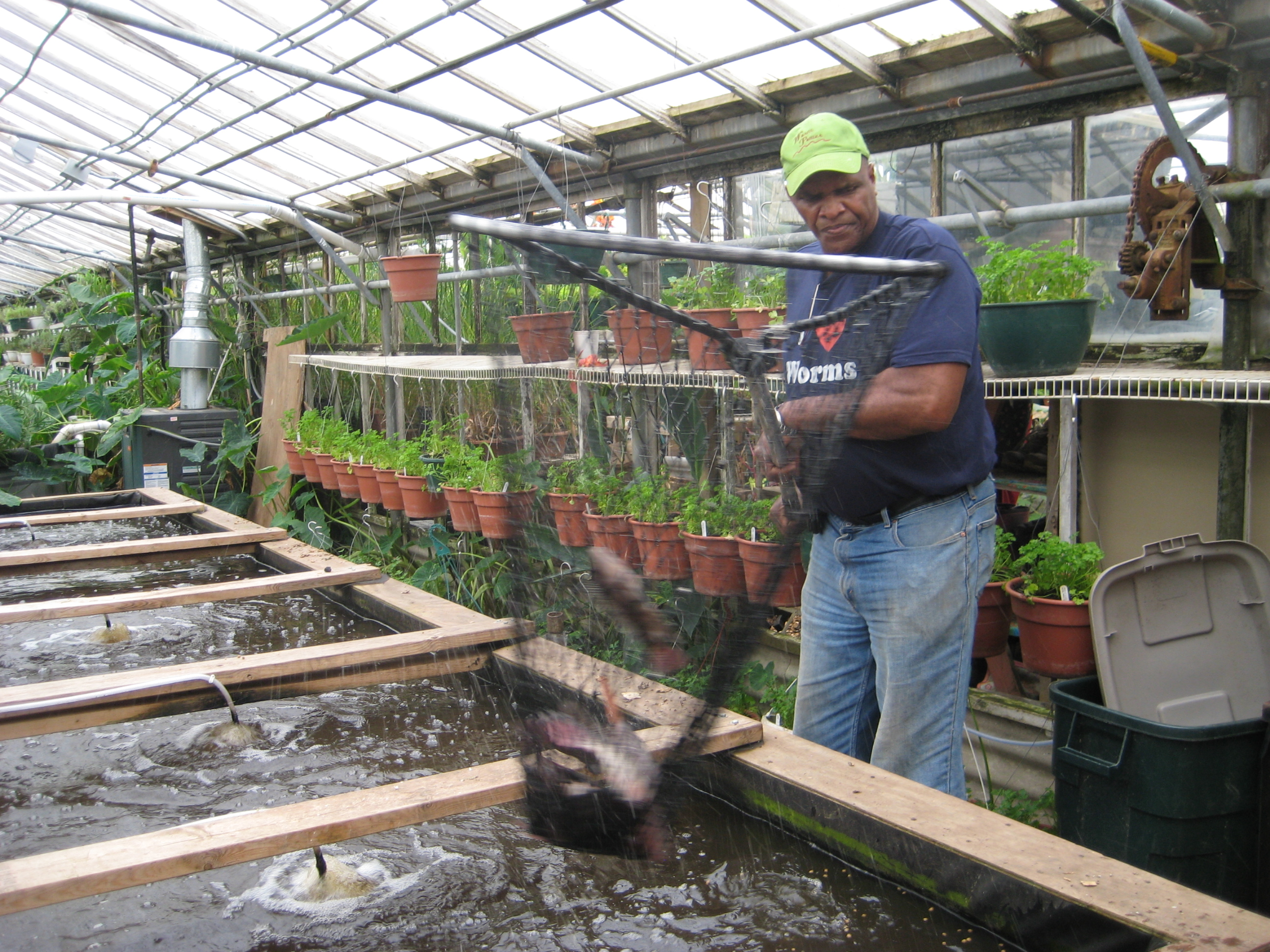 Will Allen nets a Tilapia at the urban farm Growing Power (located within the city of Milwaukee) that he co-founded and currently serves as CEO.